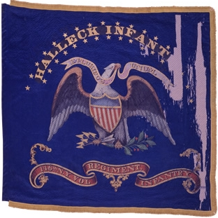 146th Regiment, NY Volunteer Infantry Regimental Color, New York State Military Museum and Veterans Research Center